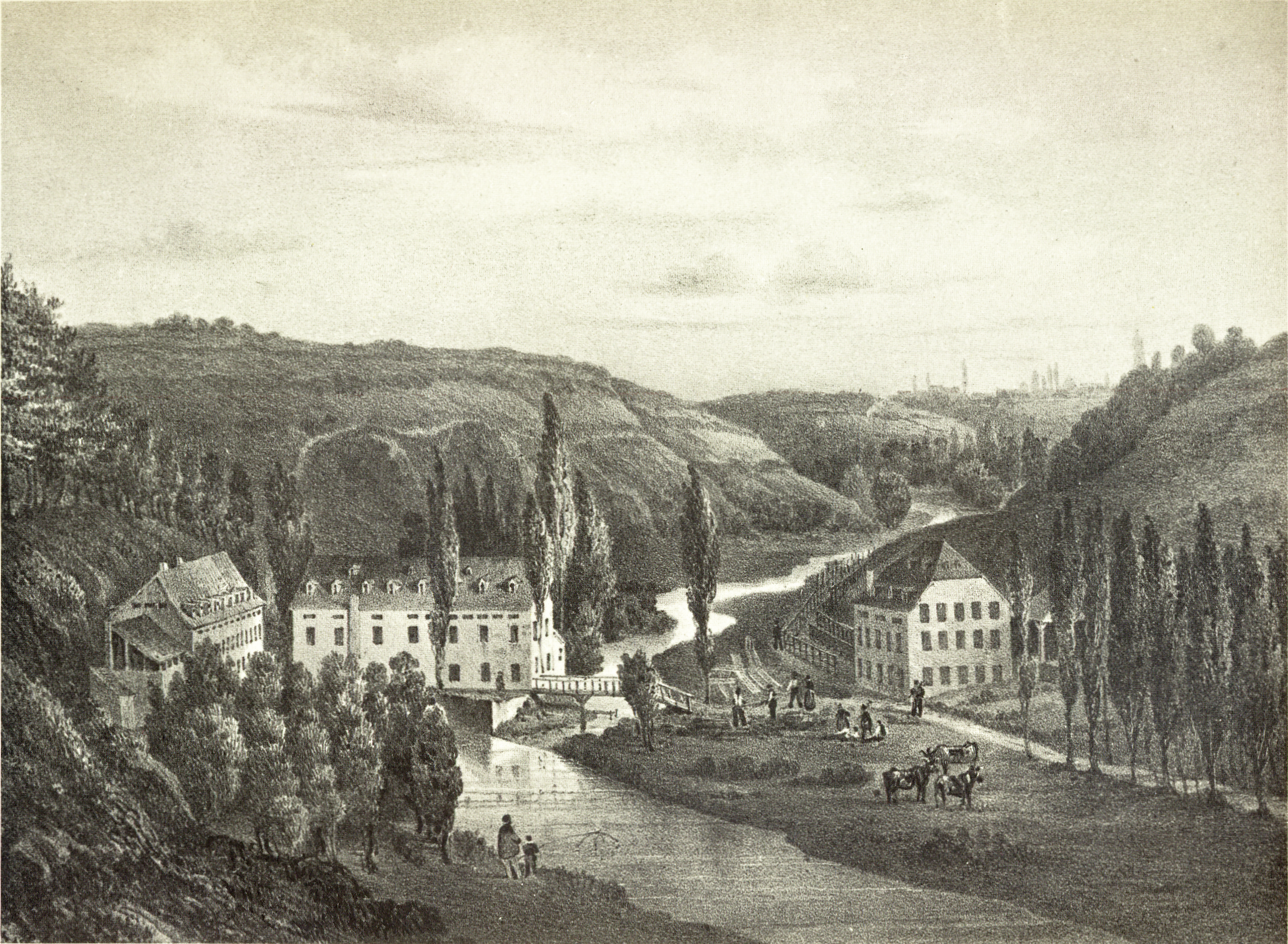 Vue upon Schleifmuhl, Luxembourg. Drawing.